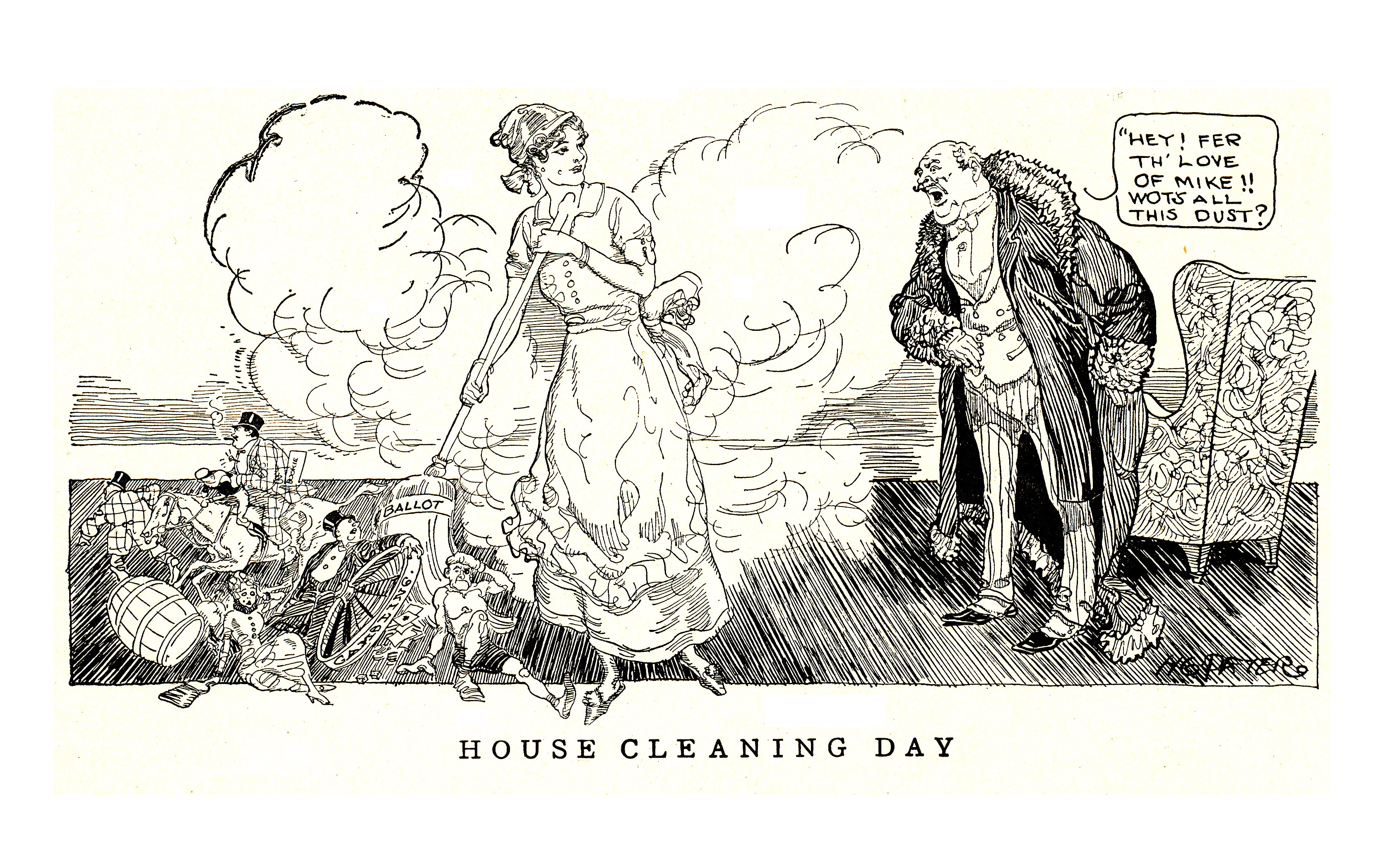 Cartoon by H G Peter that appeared on "The Modern Woman" page of Judge Magazine.